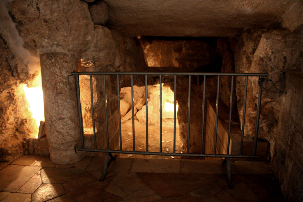 A small cave at Church of the Pater Noster